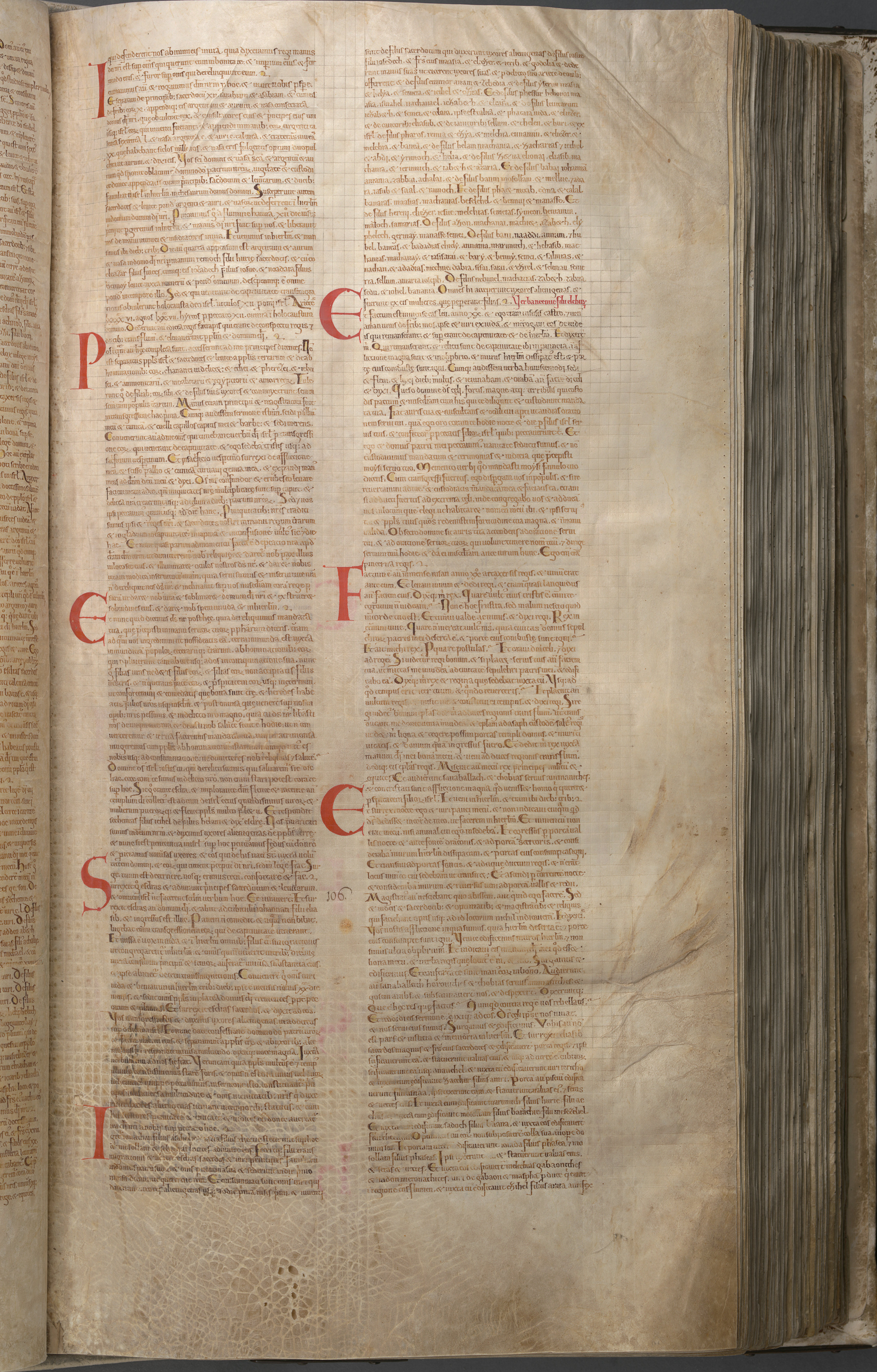 Giant Book), the largest extant medieval manuscript in the world. It is also known as the Devil's Bible because of a large illustration of the devil on the inside and the legend surrounding its creation. It is thought to have been created in the early 13th century in the Benedictine monastery of Podlažice in Bohemia (modern Czech Republic). It contains the Vulgate Bible as well as many historical documents all written in Latin. During the Thirty Years' War in 1648, the entire collection was taken by the Swedish army as plunder, and now it is preserved at the National Library of Sweden in Stockholm, though it is not normally on display.